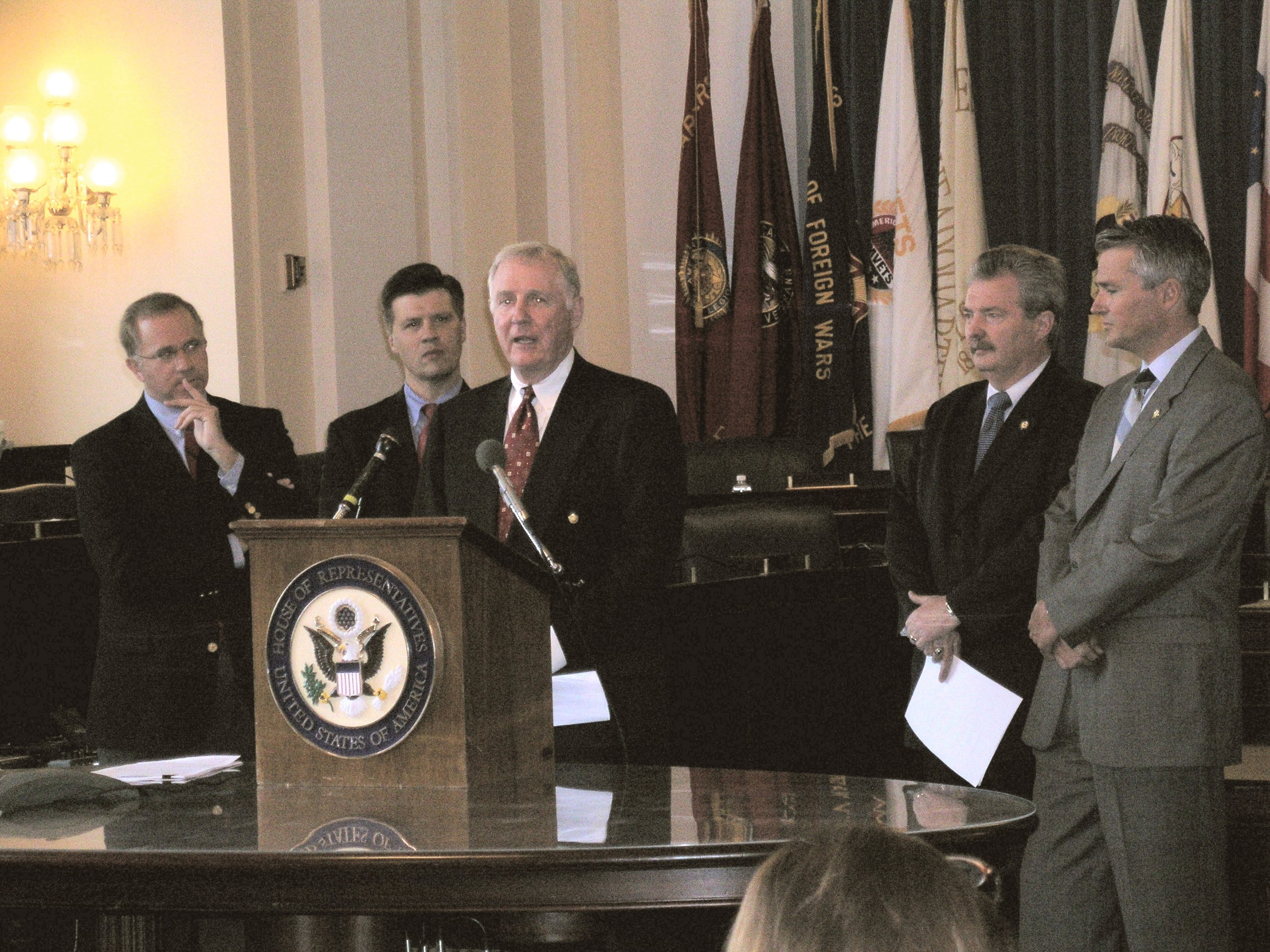 May 5, 2005 - Congressman Dan Burton (IN-5) speaks at a joint press conference about the strategic importance of Indiana's military bases to our national security. (From let to right) Congressmen Steve Buyer (IN-4), John Hostettler (IN-8), Mike Sodrel (IN-9), and Chris Chocola (IN-2) look on.